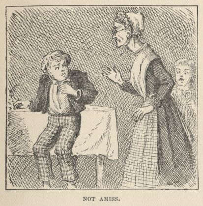 Illustrations de The Adventures of Tom Sawyer, 1876.